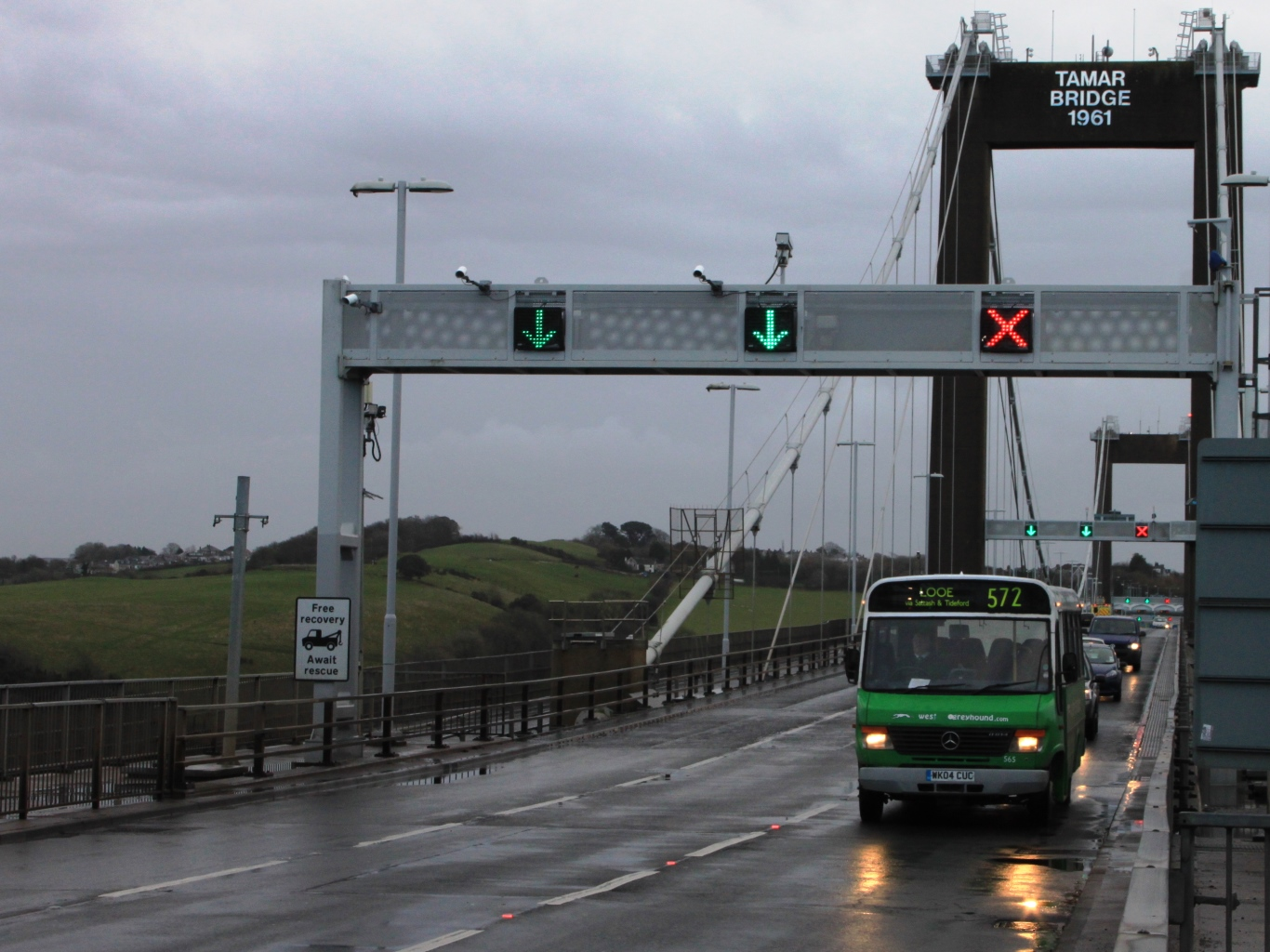 Western Greyhound's 528 (a Mercedes-Benz O814 minibus registered WK04CUC) crosses the Tamar Bridge into Cornwall.